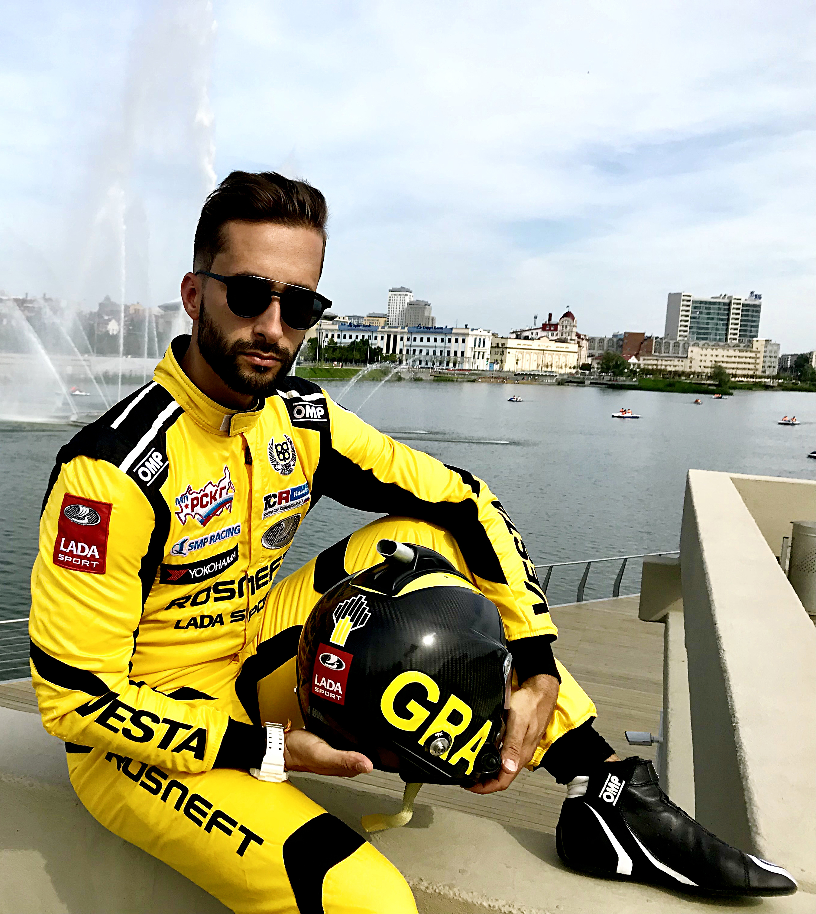 5X Russian Champion in Motorsport. TCR International race winner.